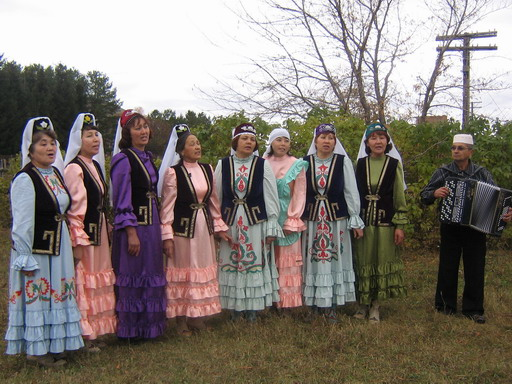 Siberian Tatars During a Festival